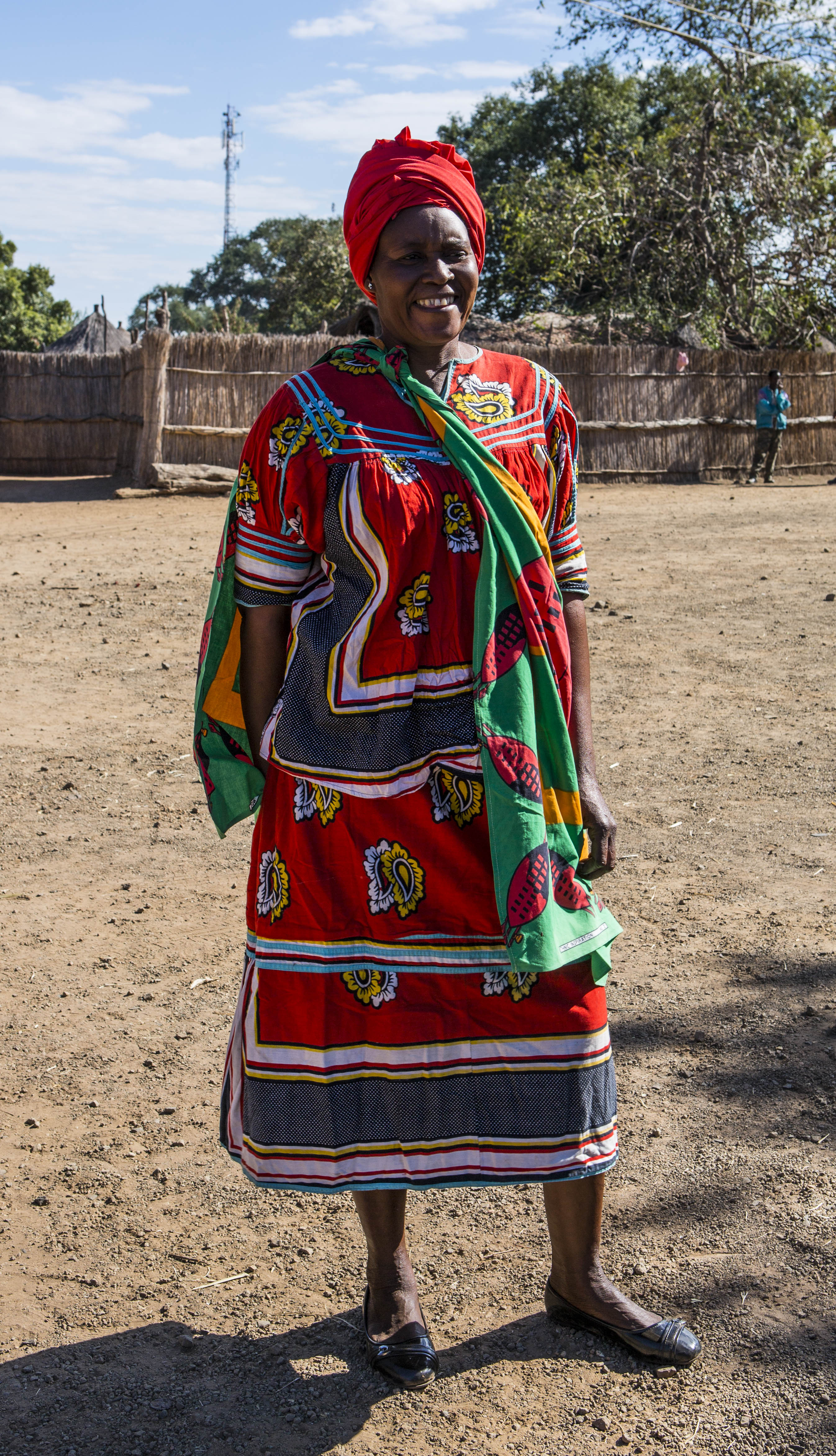 African woman in Mukuni Village, Zambia